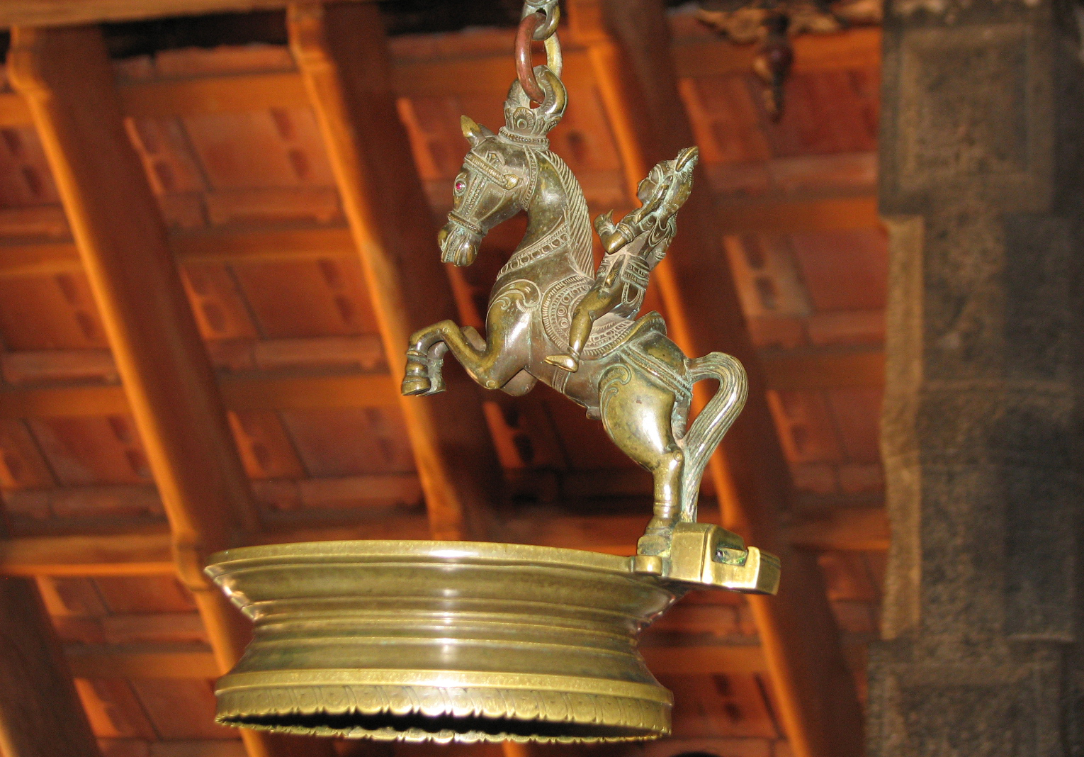 Hanging Lamp. One of the specialities of this lamp is that you can keep this lamp at any position (facing towarsd any direction) evethough it is hanged in a chain.